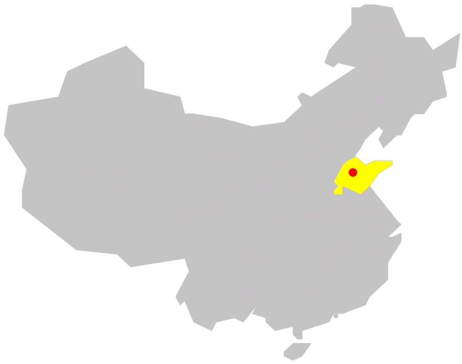 position of Zibo in China